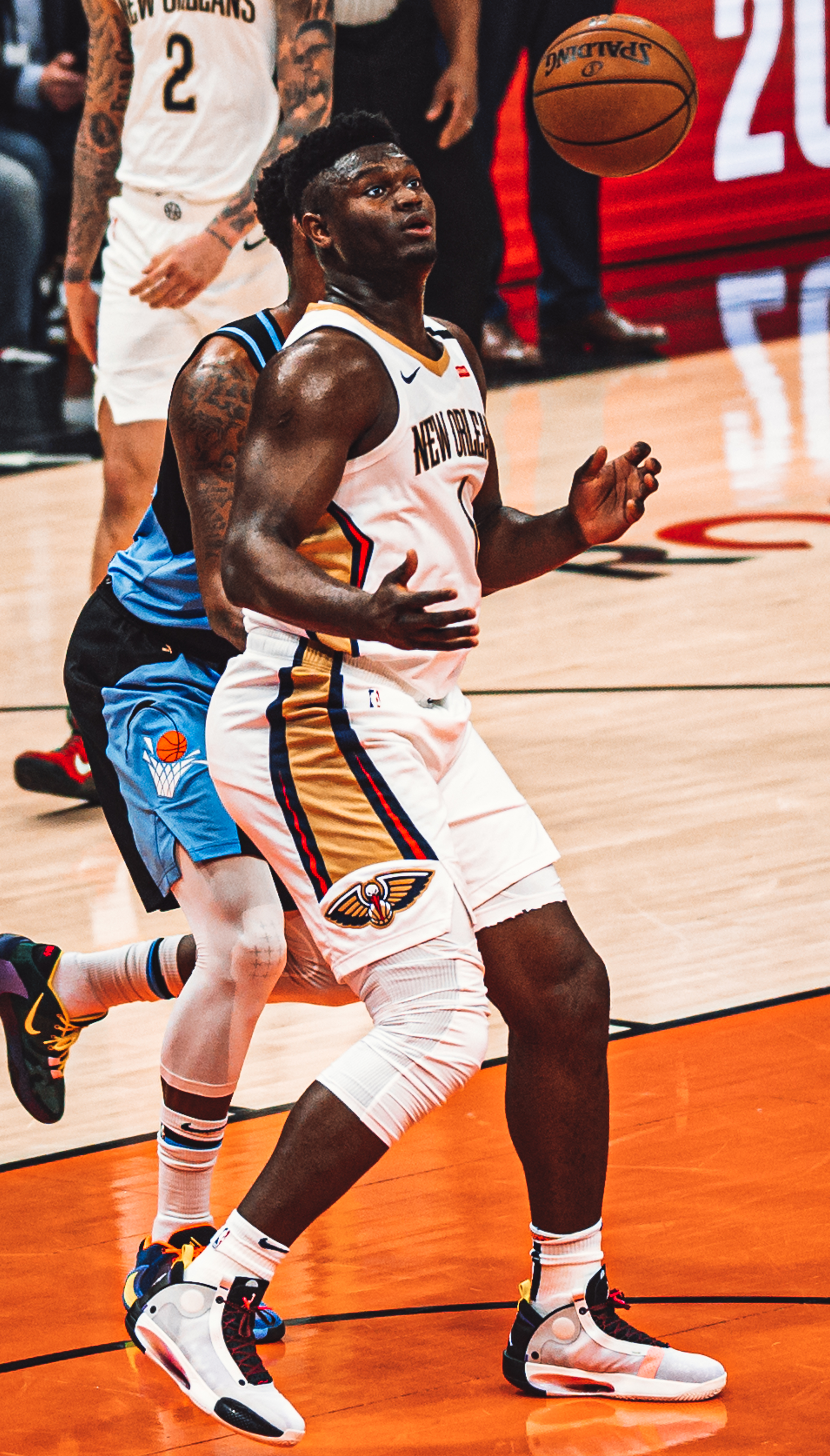 Zion Williamson of the New Orleans Pelicans corrals the ball during a January 2020 game at Rocket Mortgage FieldHouse in Cleveland.